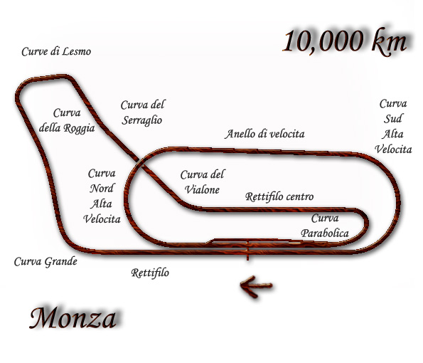 Grand Prix Italy Formula 1 /1955 - 1956/ /1960-1961/ Autor: Jiří Žemlička